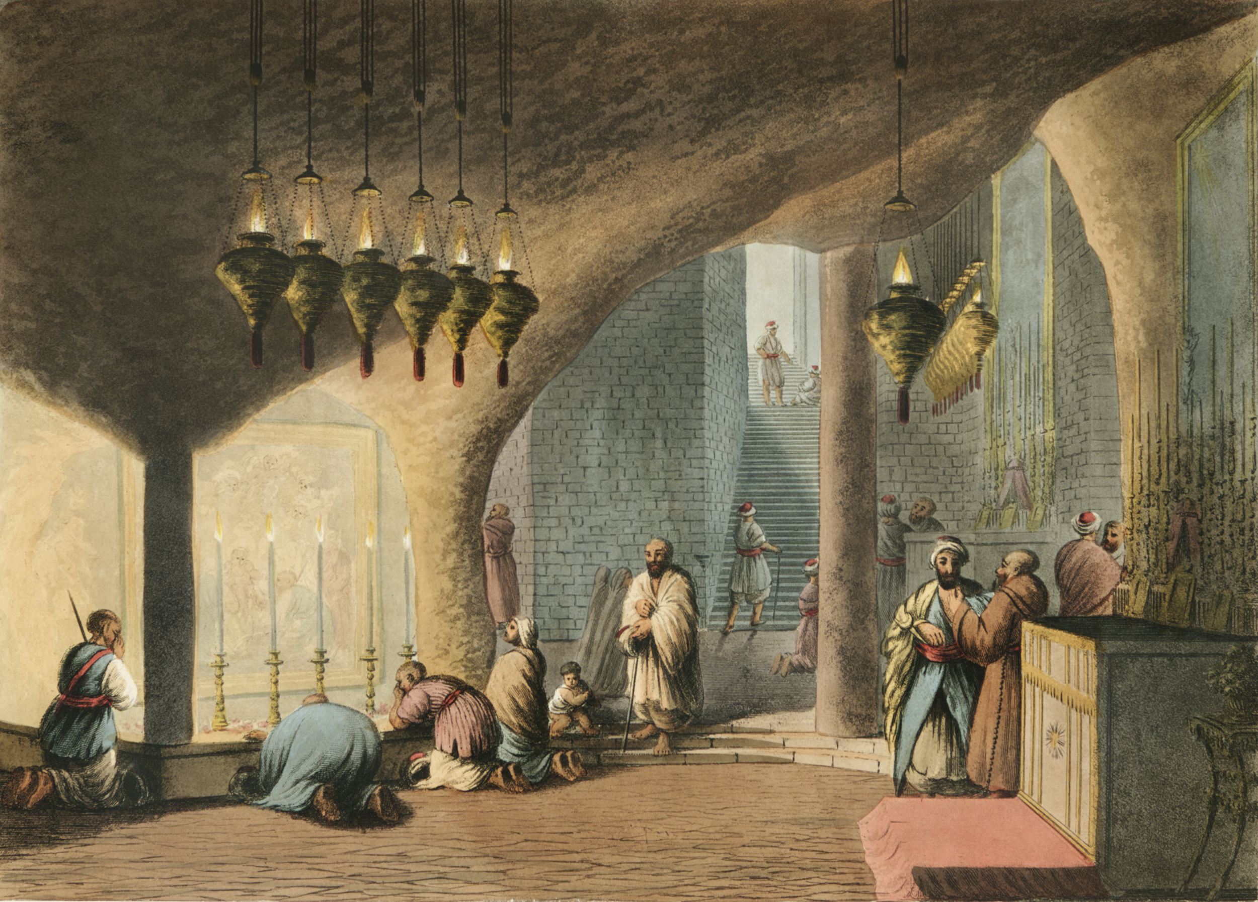 The Grotto of the Nativity from Views in the Ottoman Dominions, in Europe, in Asia, and some of the Mediterranean islands (1810) illustrated by Luigi Mayer (1755-1803).